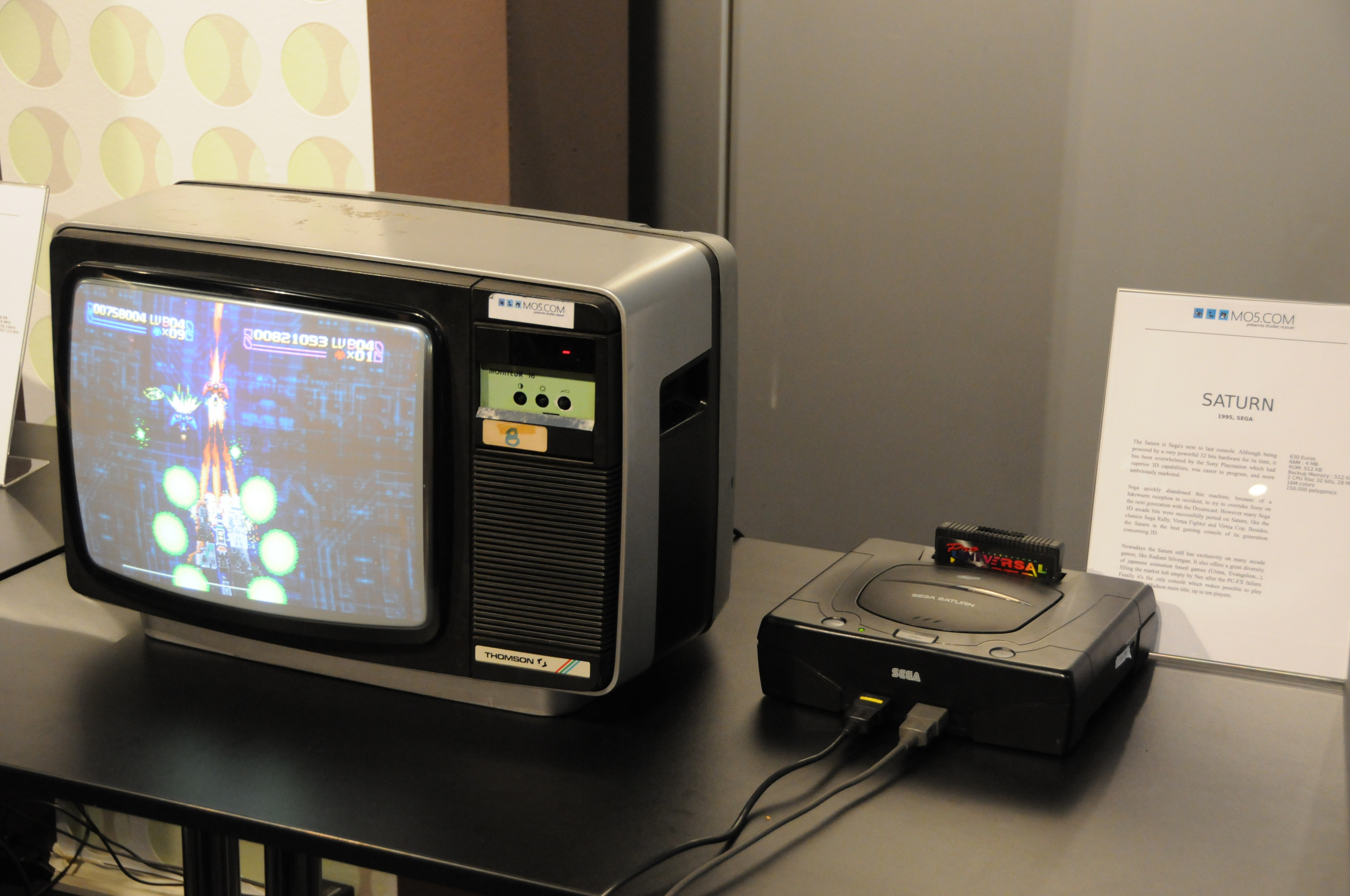 Games Convention 2008, Sega Saturn